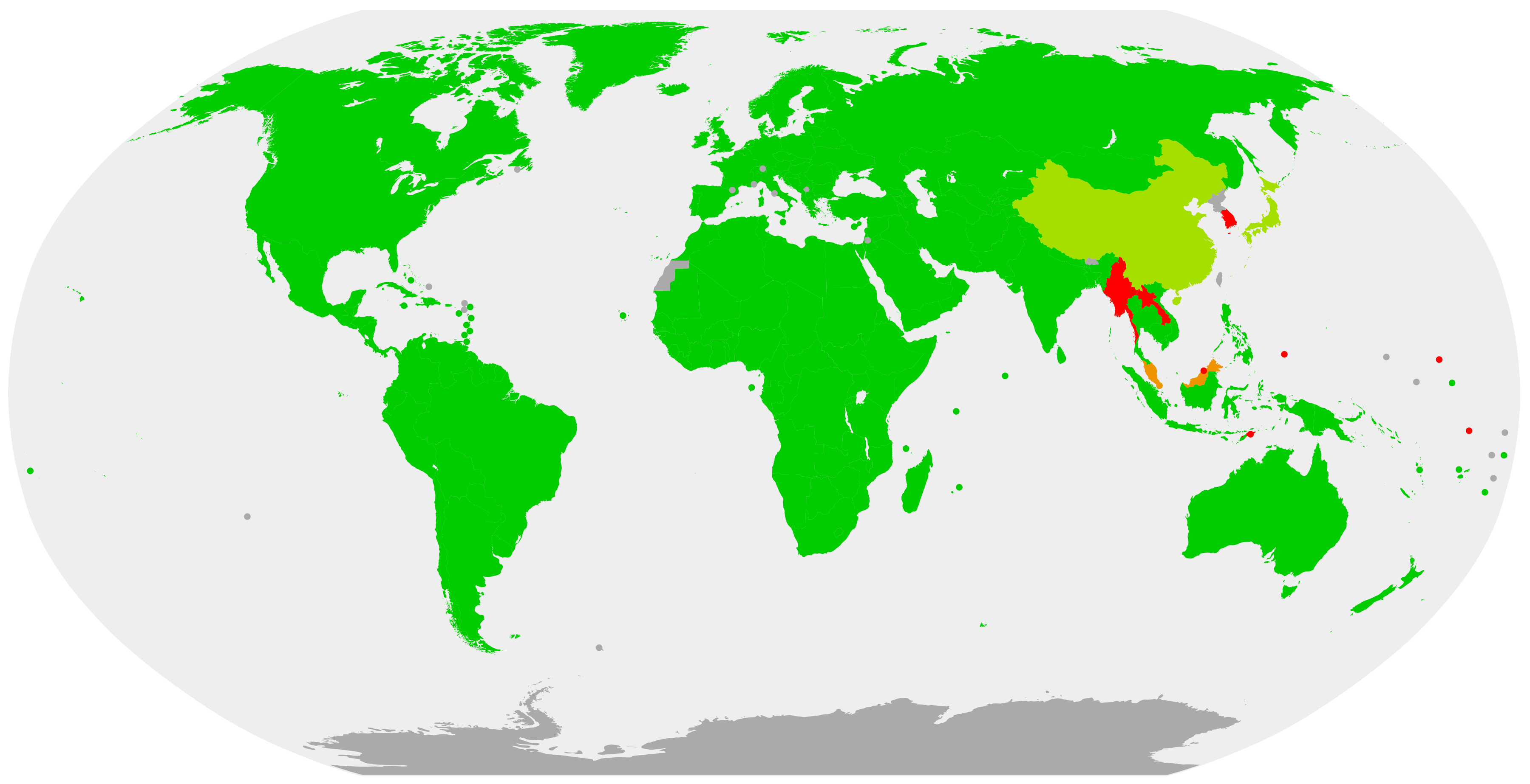 States parties of the Abolition of Forced Labour Convention (green). States that denounced are shown in red.